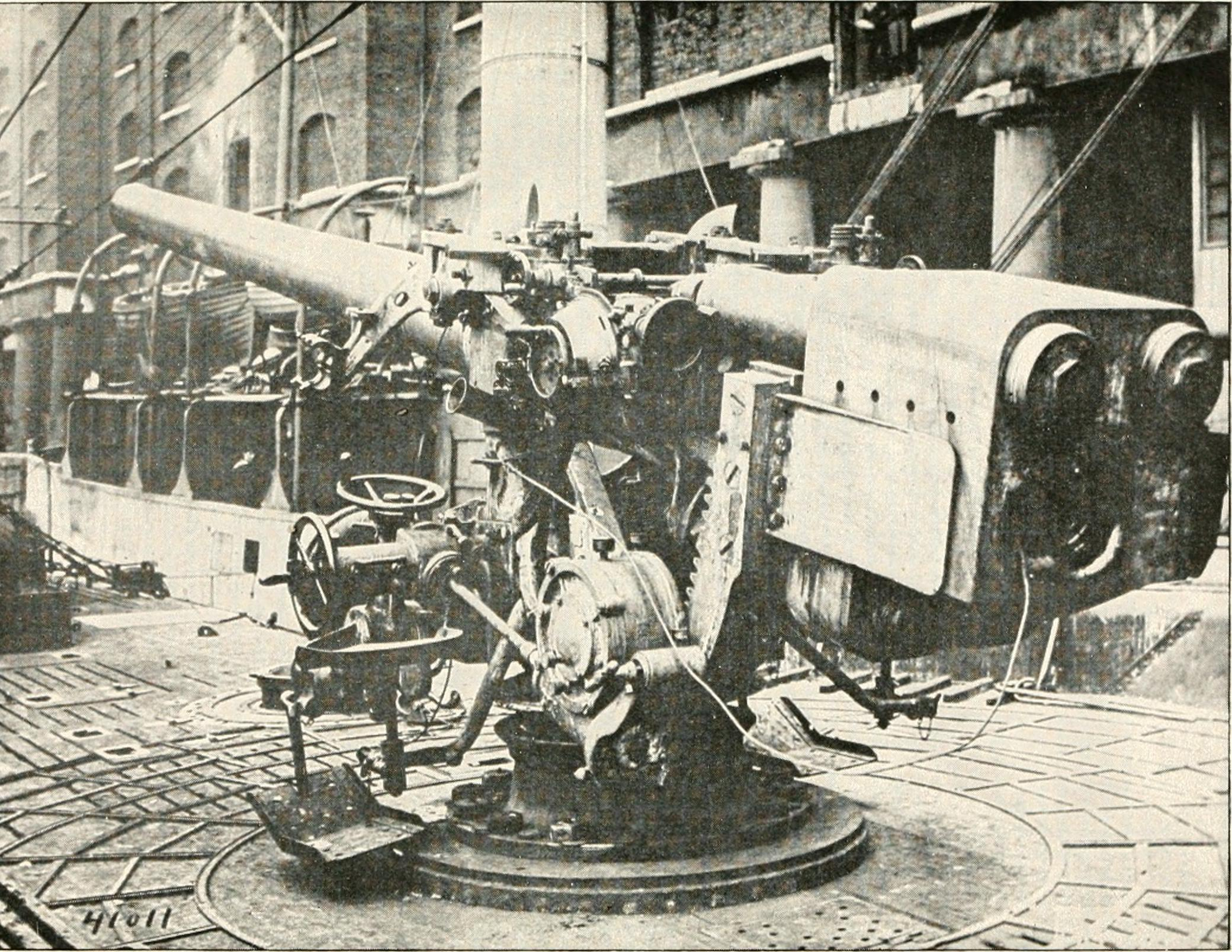 This is a 15 cm/45 (5.9") Ubts + Tbts KL/45 U-boat deck gun, used on "U-cruisers" in World War I, including the U-139 and U-151 classes and the former merchant submarine Deutschland. Title: German submarine activities on the Atlantic coast of the United States and Canada Year: 1918 (1920s) Authors: United States. Office of Naval Records and Library Subjects: World War, 1914-1918 -- Naval operations Submarine World War, 1914-1918 -- Germany Publisher: Washington : Govt. Print. Off. Text Appearing Before Image: 96-1 Text Appearing After Image: ^ tJD 90-2